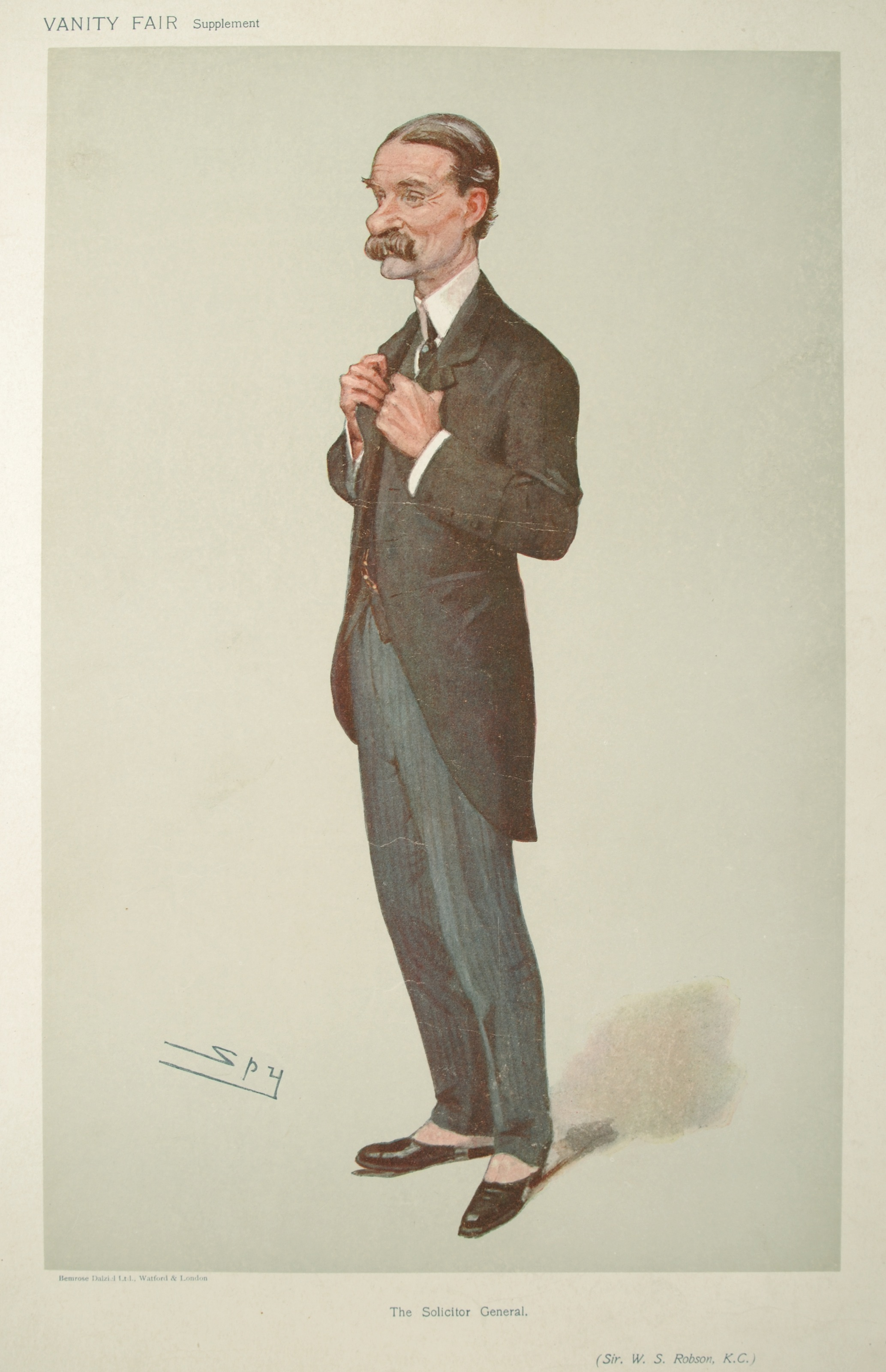 Caricature of Sir William Robson KC MP. Caption read "The Solicitor General".